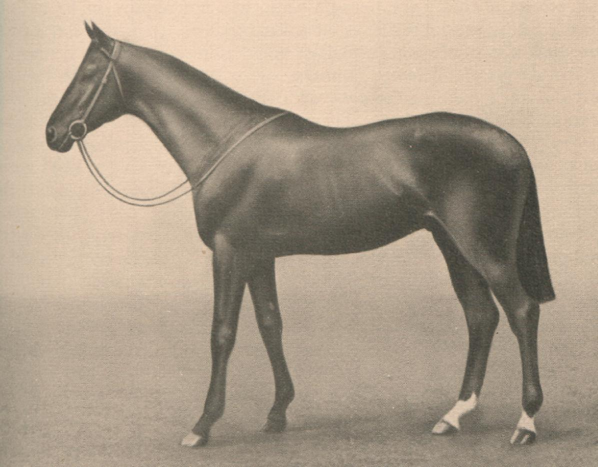 Ard Patrick (1899-1923) was a British Thoroughbred racehorse who won the 1902 Epsom Derby.